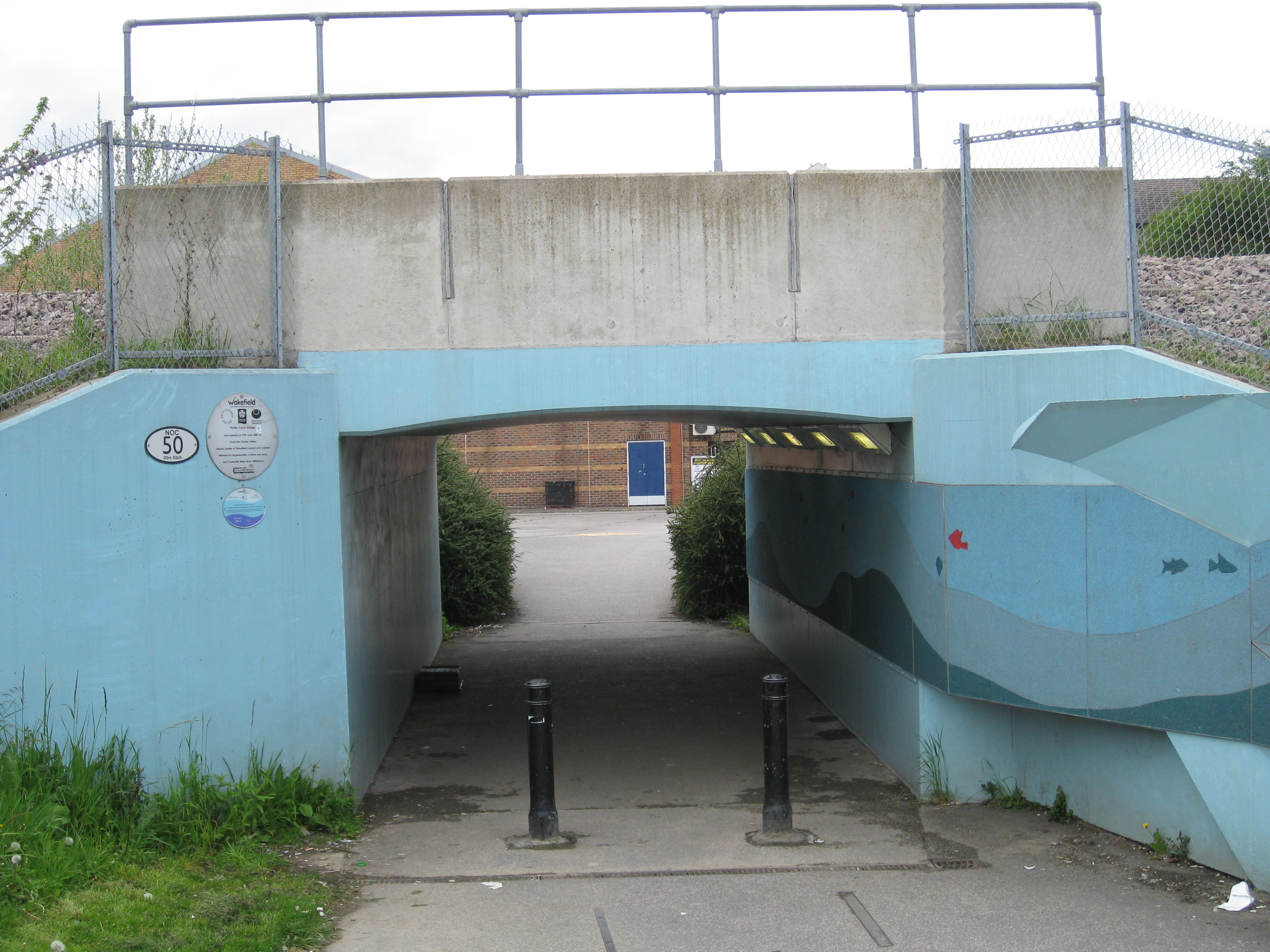 Tickle Cock Bridge, Castleford, West Yorkshire UK. Viewed from the South side of the railway line and looking through the pedestrian tunnel to the area to the rear of the markets. It hasa mural with a water and fishes theme.